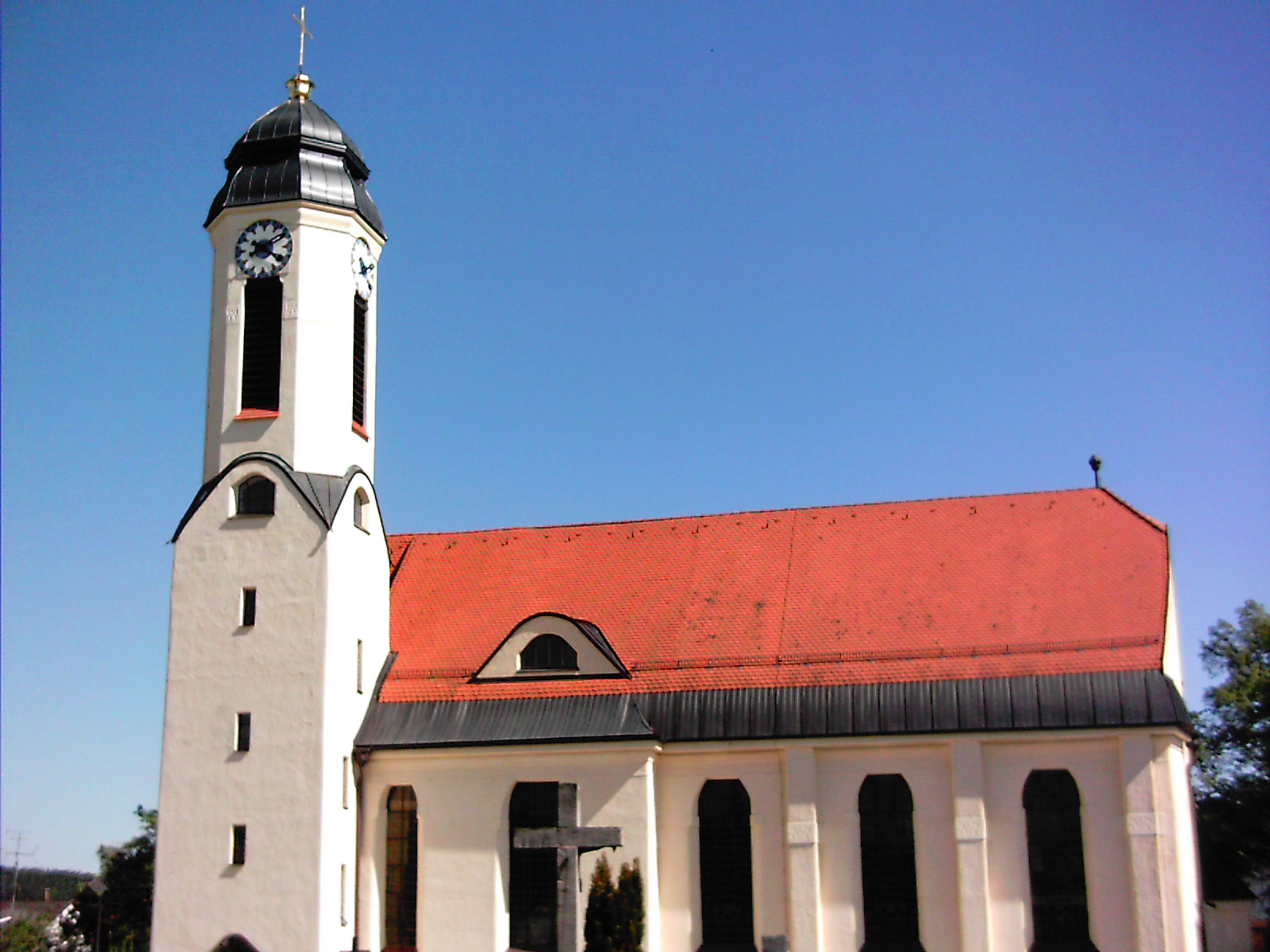 Dietelskirchen, Parish Church of the Immaculate Conception, seen from the cemetery.